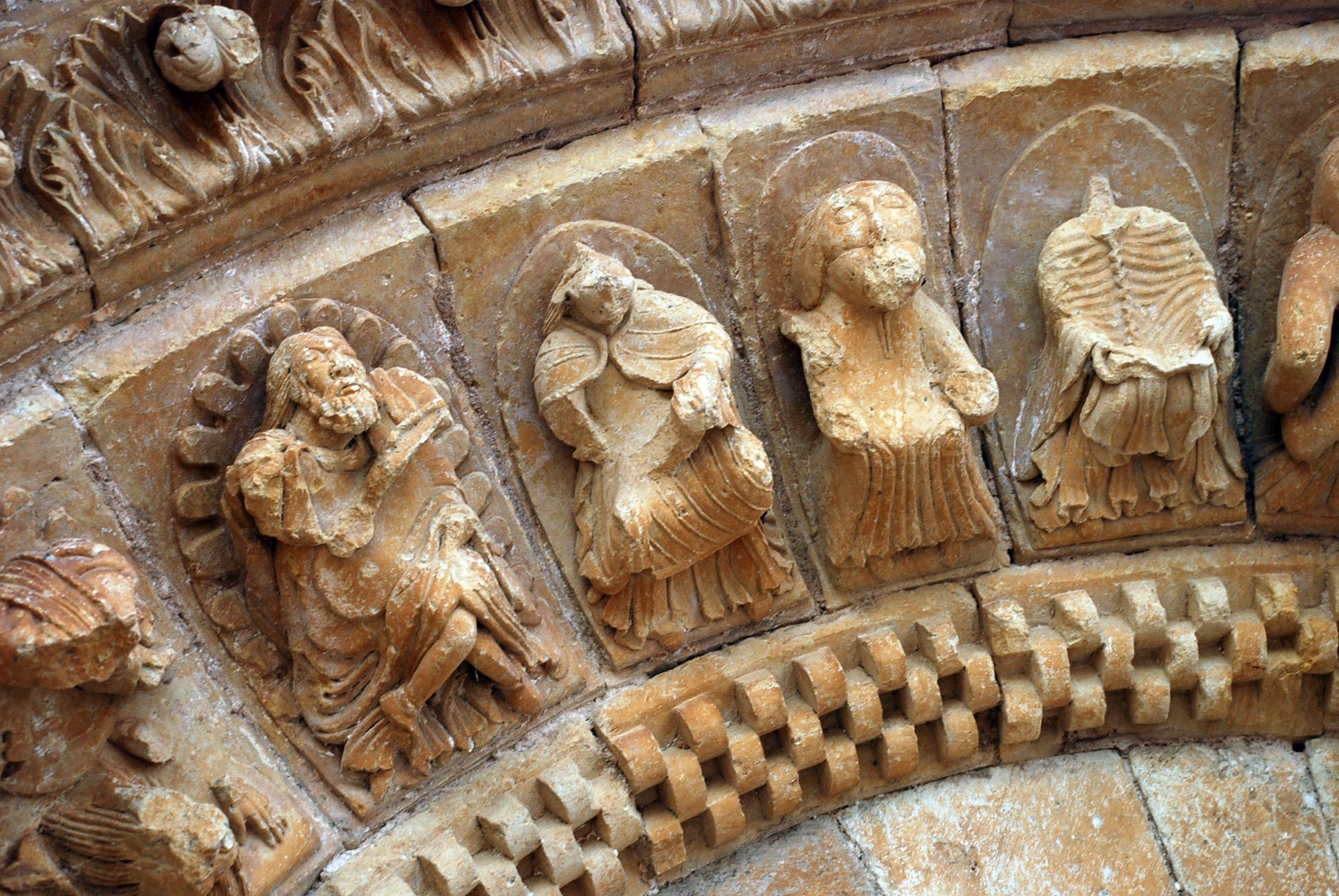 Detail of archivolt on the porche of the Church of San Pelayo in Arenillas de San Pelayo (Palencia, Castile and León). The porche is dramatically flared and consists of seven semicircular that inside to outside look successively archivolts: chequered jaqués, dowels decorated with figurines, thin and thick baquetón, another chequered jaqués, again baquetón thin and thick and outside another of thick baquetón. Apean in whole imposta that forms the cimacios the underlying capitals.